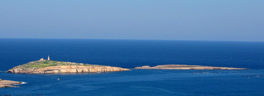 St.Paul's Island, a.k.a Selmunett Island Photo: Arnold Sciberras